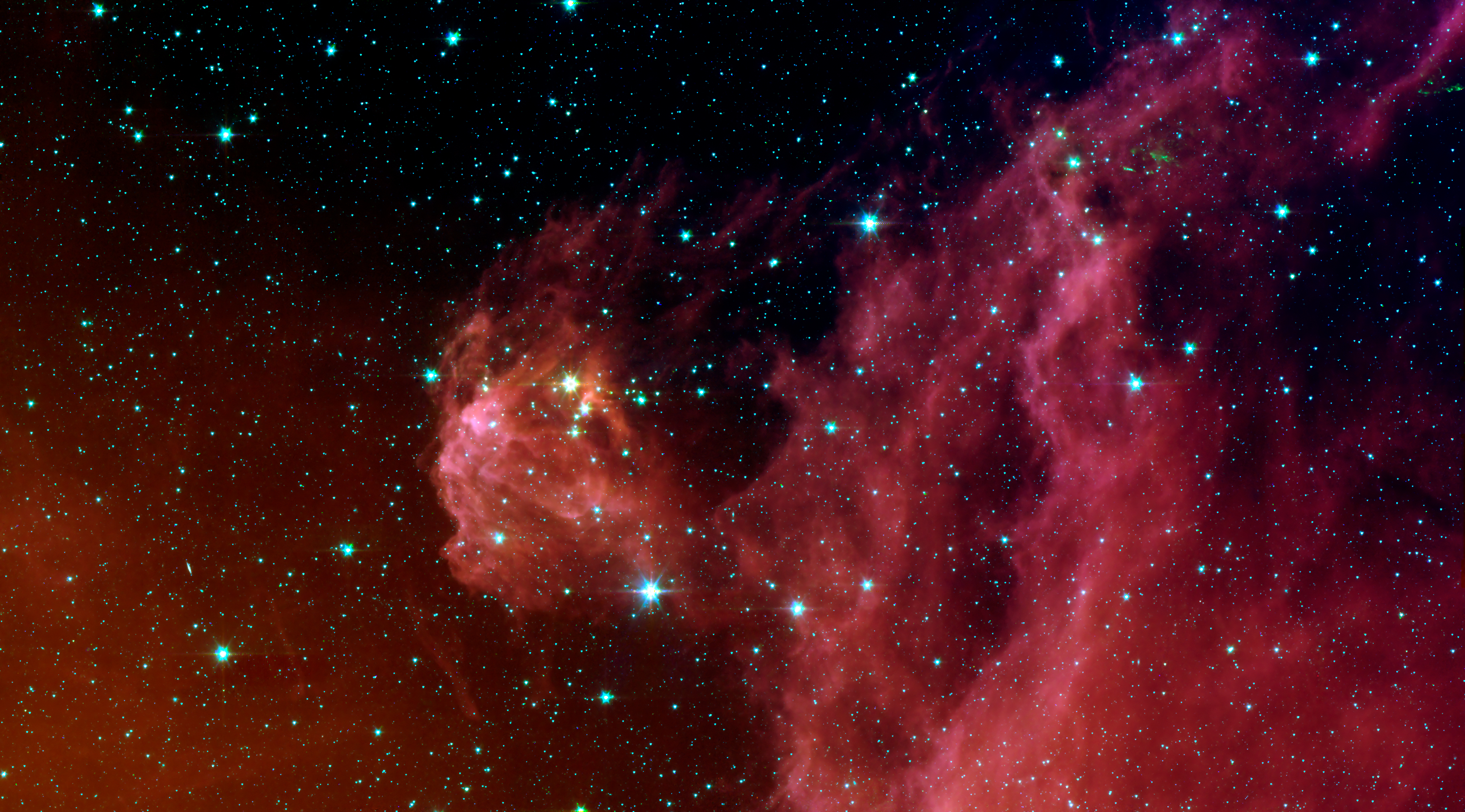 Young Stars Emerge from Orion's Head